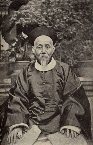 Wang Wenshao (1830－1908), Viceroy of Yunnan and Guizhou